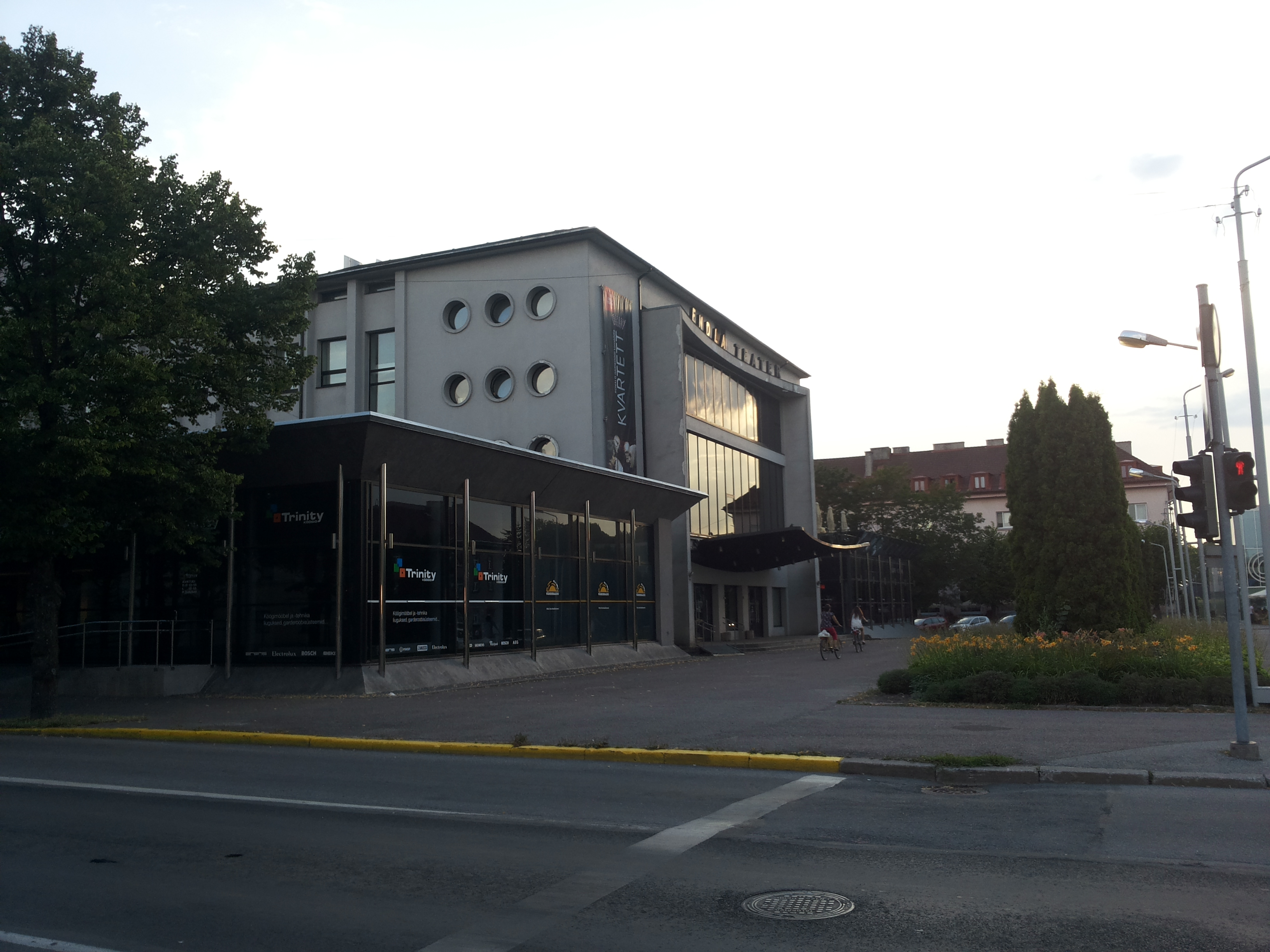 Building of Endla Theatre in Pärnu